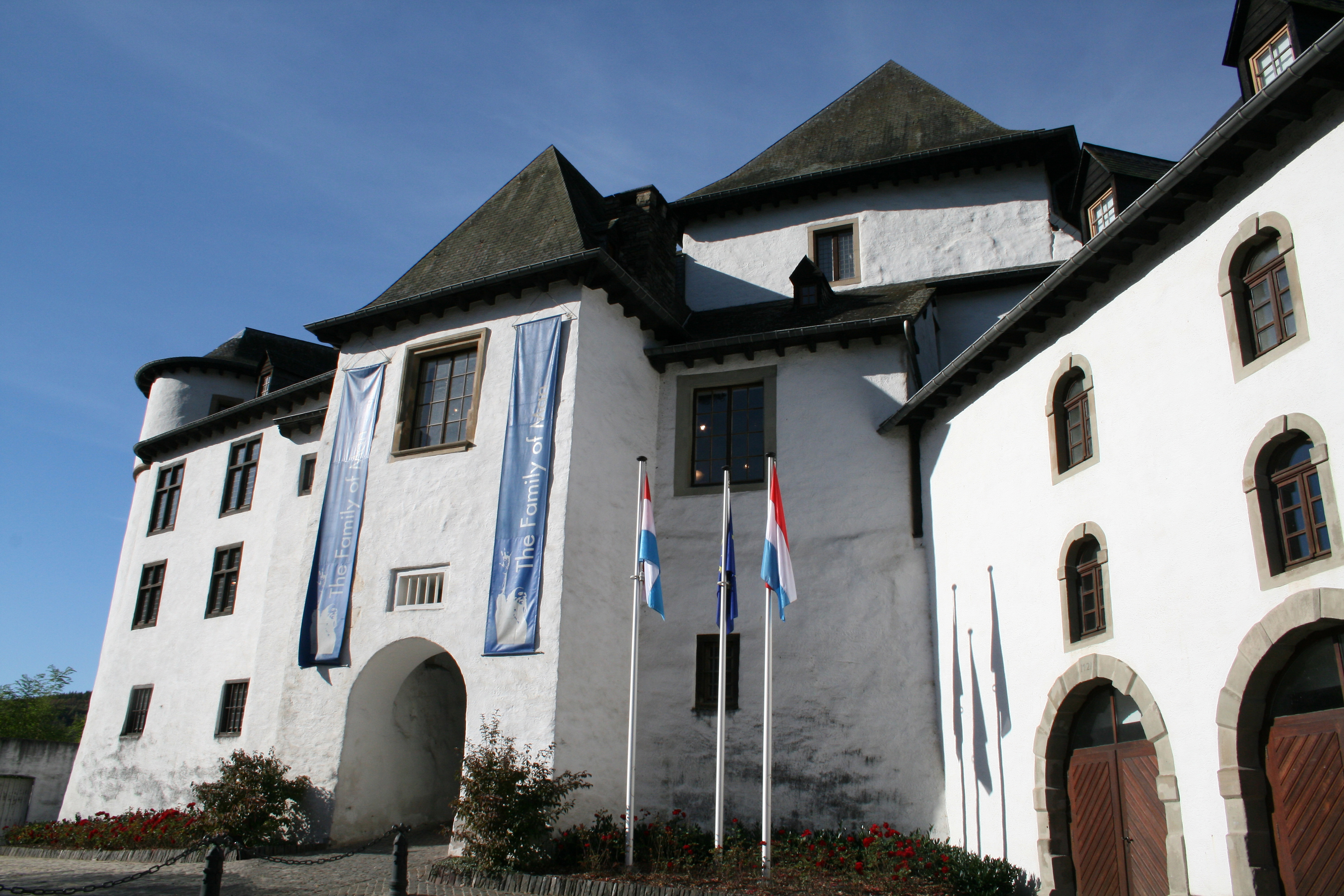 Clervaux (Luxembourg) - The old castle (XIIth century).